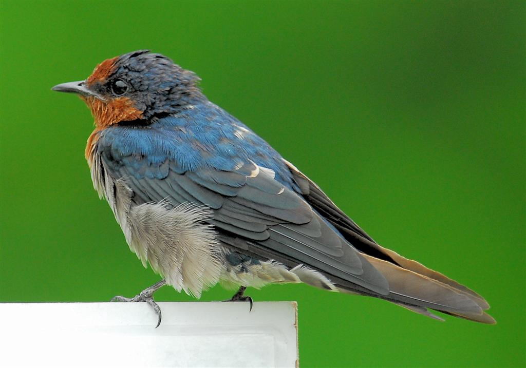 Pacific Swallow